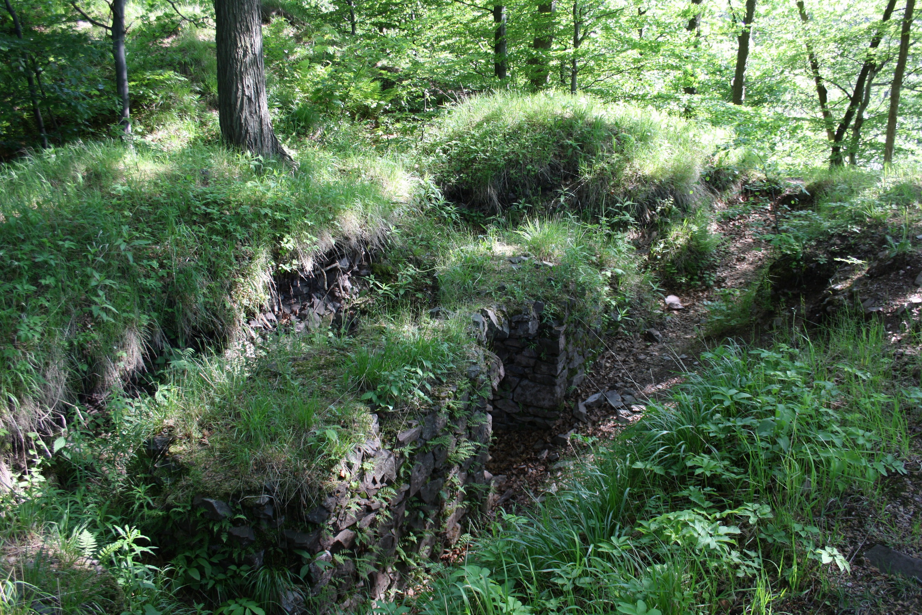 Ruins of Radosno Castle, Lower Silesian Voivodship, Poland.